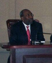 Ruhakana Rugunda